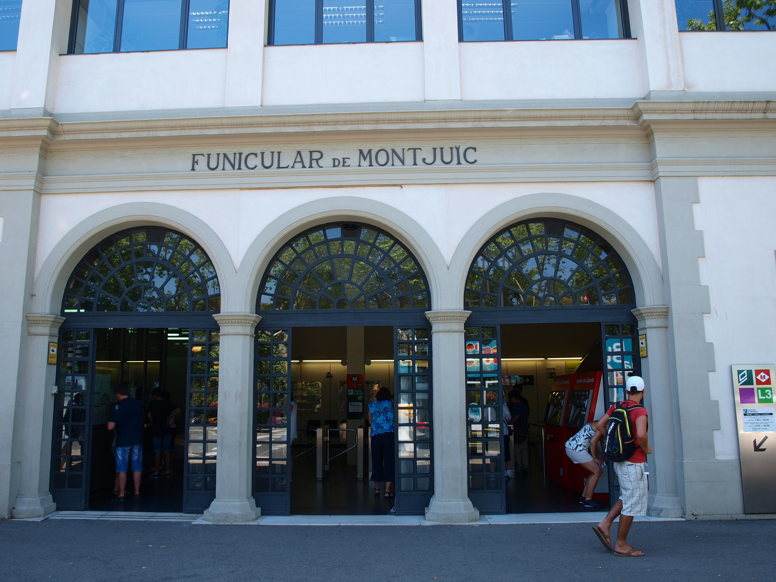 Funicular de Montjuïc in Barcelona - Portal